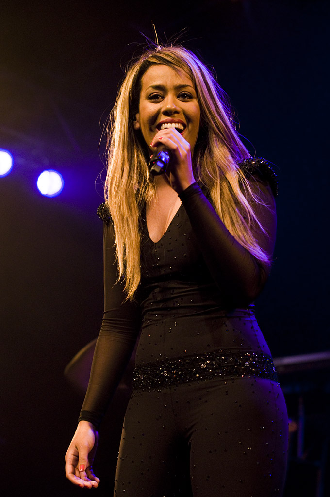 Amel Bent at Les Docks, Lausanne